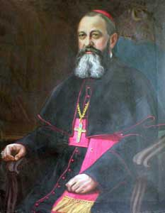 Valeriu_Traian_Frenţiu (1875–1952), Bishop of the Diocese of Lugoj of the Romanian Greek Catholic Church from 1912 to 1922 Bishop of the Diocese of Oradea Mare of the Romanian Greek Catholic Church from 1922 to 1952.